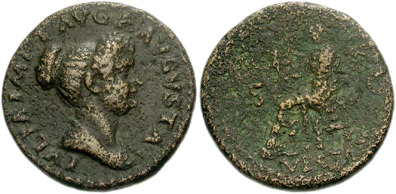 Julia Titi. Augusta, AD 79-90/1. Æ Dupondius (26mm, 10.42 g). Rome mint. Struck under Titus, AD 80-81. Draped bust right / Vesta seated left, holding palladium and sceptre. RIC II 180 (Titus); BMCRE 257; Cohen 18. Good Fine, greenish-brown patina, rough surfaces.